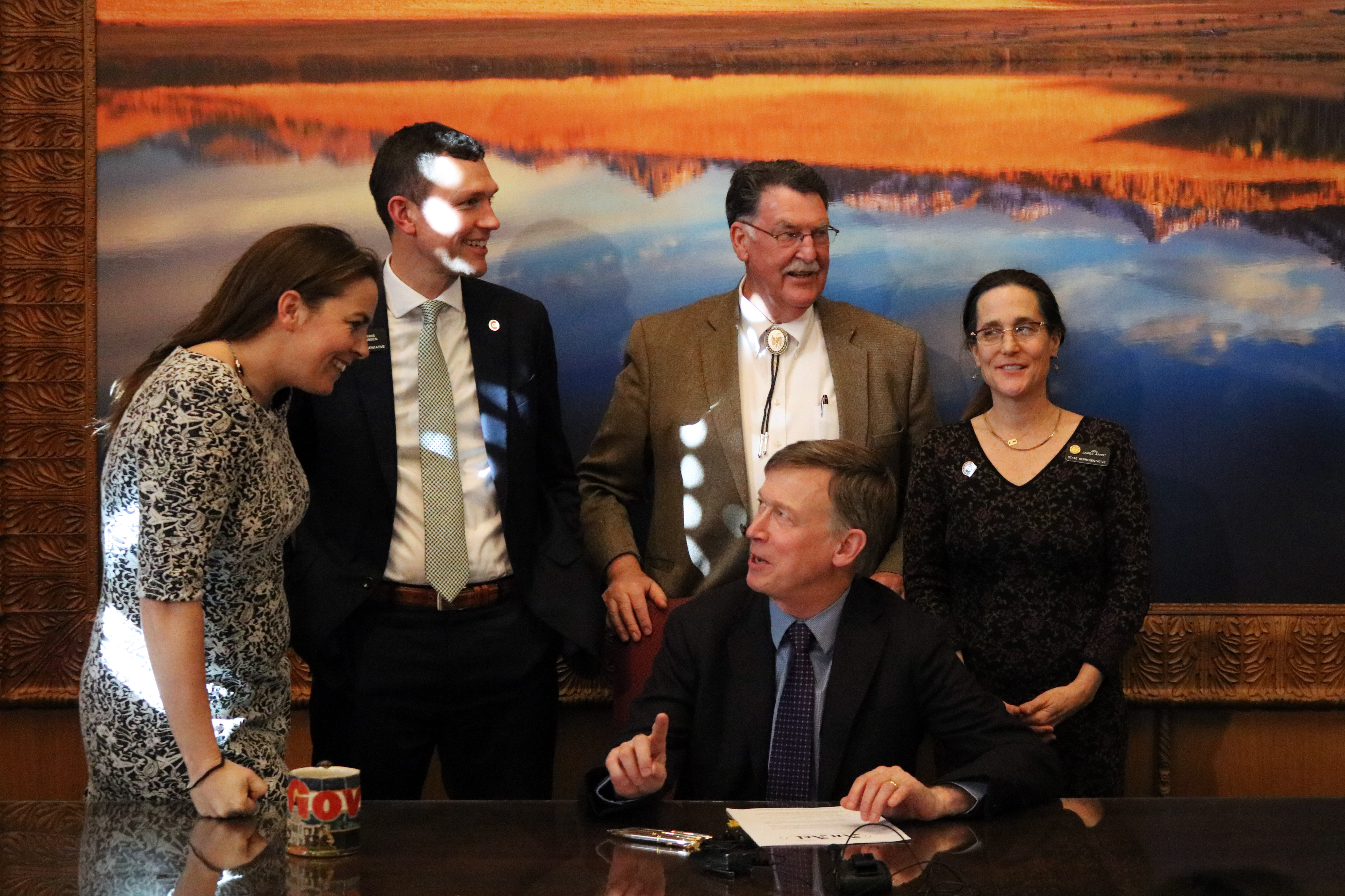 Senator Kerry Donovan talks with Governor Hickenlooper during a bill signing.